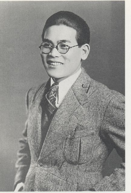 Meguro Ono